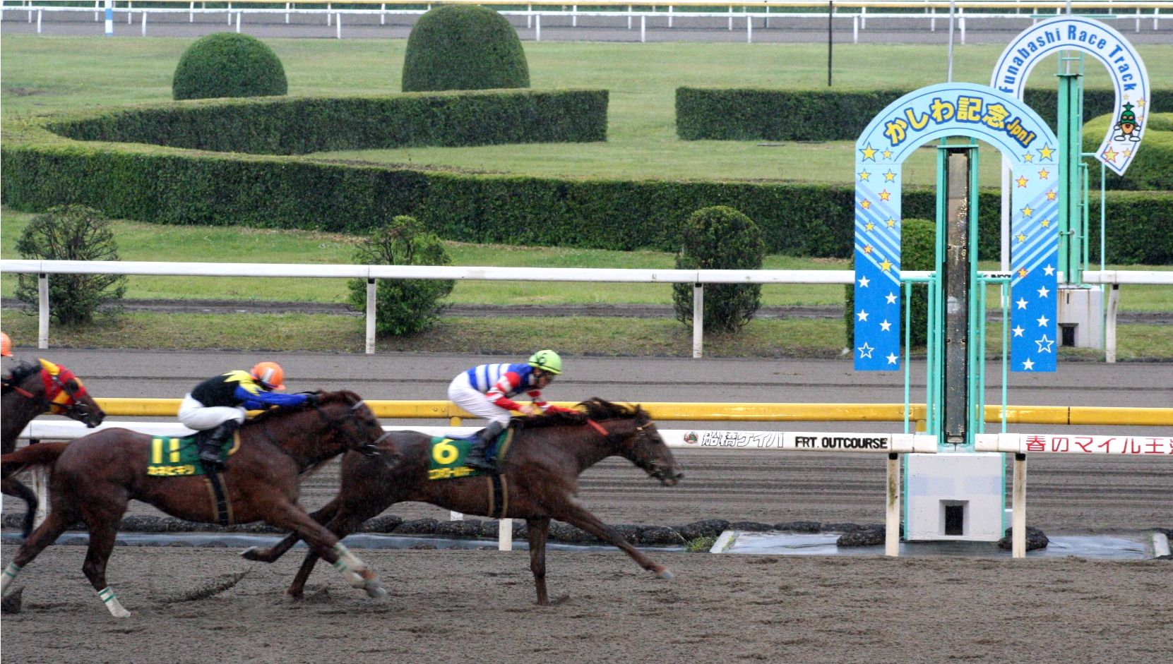 The 21st Kashiwa Kinen (Funabashi Racecourse)